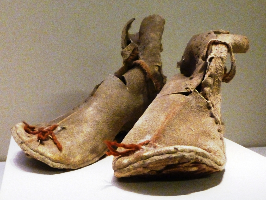 These ancient boots found in Loulan are in the National Museum, Beijing, China.